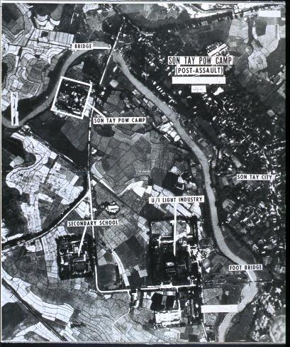 This is a US Government reconnaissance photograph of the Son Tay prison camp in (the then) North Vietnam.